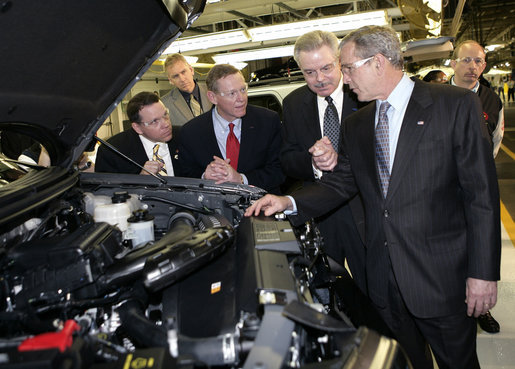 President George W Bush tours the Ford Motor Company Kansas City Assembly Plant, in Claycomo, Missouri. Note: U.S. Rep. Sam Graves, Ford President Alan Mulally, Ford Group Vice President Derrick Kuzak, and President George W. Bush at the Ford Kansas City Assembly Plant in Claycomo, Missouri on March 20, 2007. White House photo by Eric Draper.